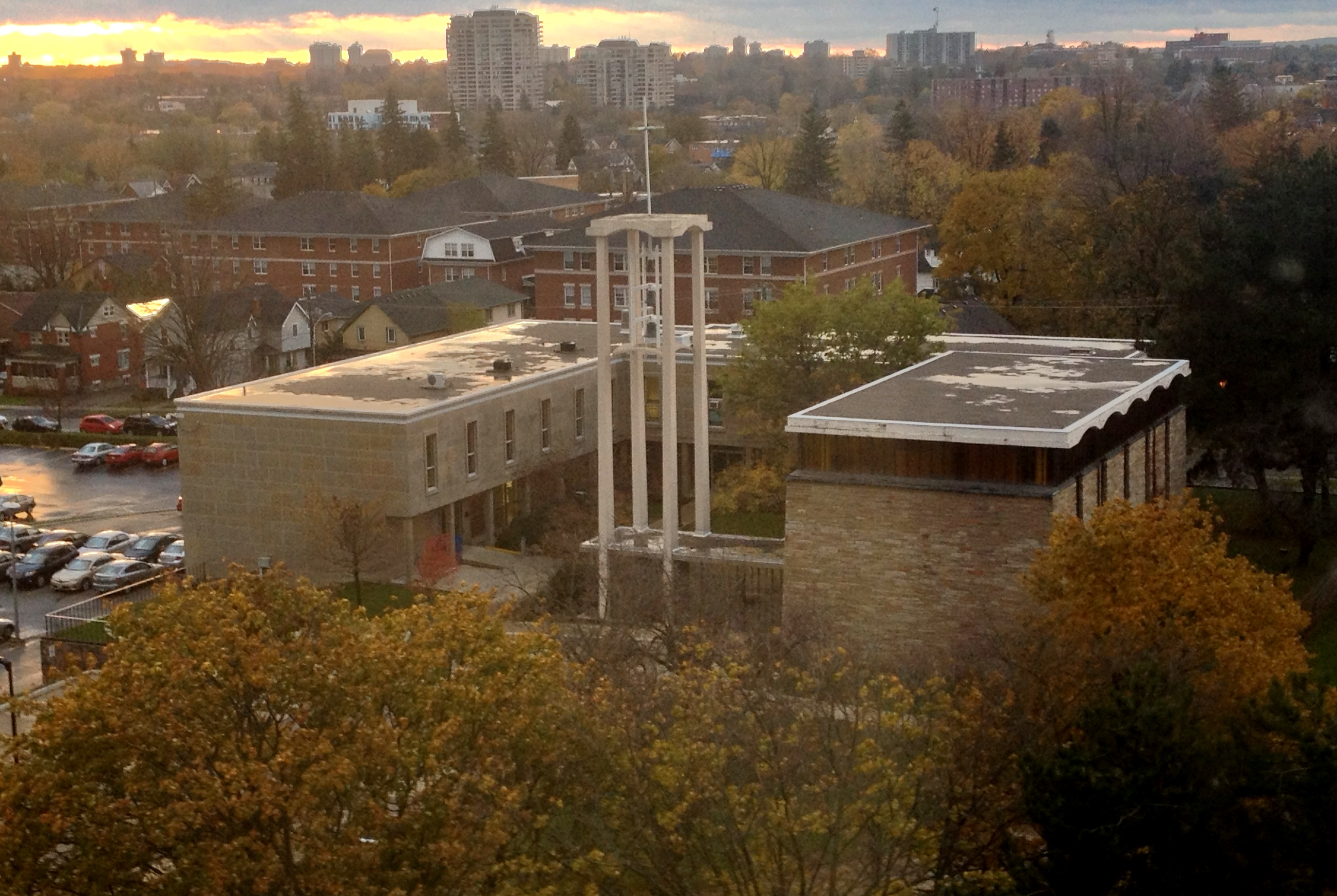 Waterloo Lutheran Seminary, Waterloo, Ontario, Canada Picture taken Nov. 1, 2013 from the Wilfrid Laurier University library